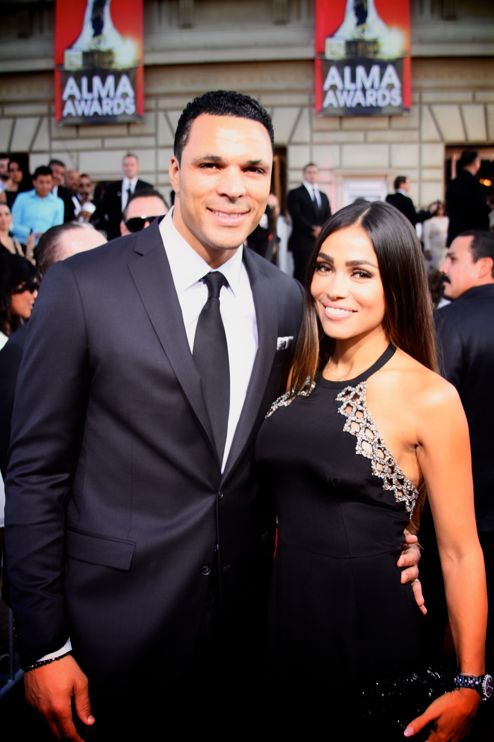 Tony Gonzalez; October Gonzalez at the 2014 Alma Awards